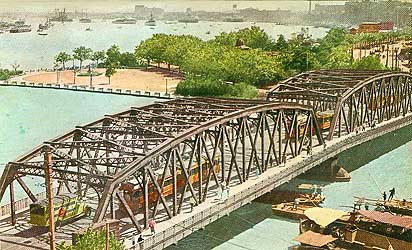 Waibaidu Bridge in the 1930s